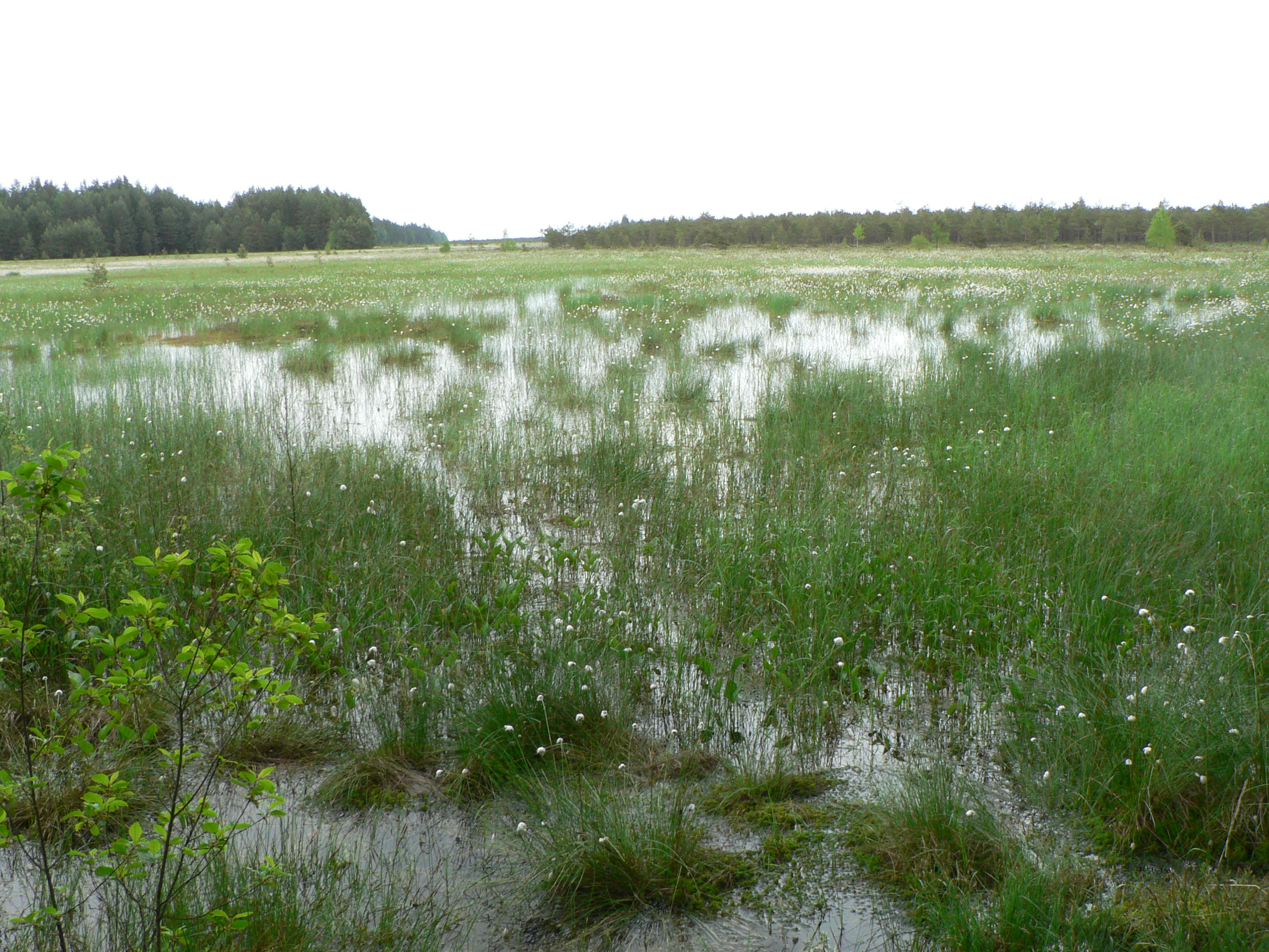 Čepkeliai Marsh near Marcinkonys, Lithuania.